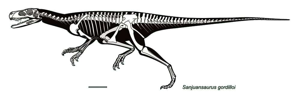 Silhouette reconstruction of the skeleton of Sanjuansaurus gordilloi.